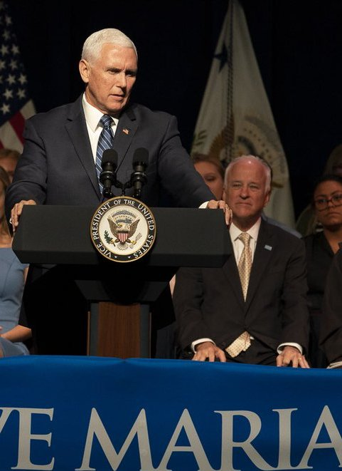 Vice President Mike Pence delivering a speech to Ave Maria University students on 28 March 2019. Jim Towey is seated on the right of Pence.